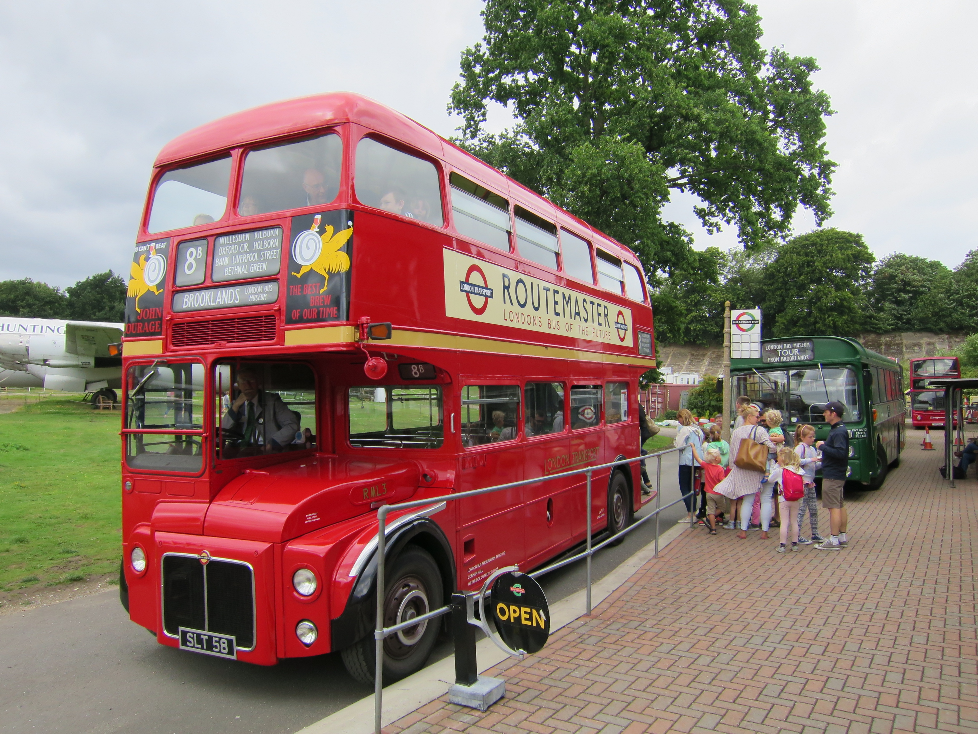 AEC Routemaster at London Bus Museum, Brooklands Brooklands :: TQ0661 Brooklands was a 2.75-mile (4.43 km) motor racing circuit and aerodrome built near Weybridge. It opened in 1907, and was the world's first purpose-built motorsport venue, as well as one of Britain's first airfields, which also became Britain's largest aircraft manufacturing centre by 1918. The circuit hosted its last race in 1939, and today part of it forms the Brooklands Museum. (Extract from Wikipedia) Most of the track has now been built on, but some of the steep sided banking still remains, some of which is part of the museum, with another section running along side Barnes Wallis Drive, which now intesects it. The remains of the track, aerodrome and World War II buildings are a scheduled ancient monument Link AEC Routemaster The Routemaster is an iconic double-decker bus, built between 1954 and 1968. It has an open platform and staircase to the rear where passengers would get on and off. The bus required two staff, the ticket collector, and the driver who was separated in his own compartment. Nearly were all built in red or green. The Routemaster saw continuous service in London until 2005 when it was finally phased out in favour of wheel-chair friendly, single staff buses. Many can still be seen in the city hired for various events. 2,876 Routemasters were built, and around 1,000 are thought to still be existence. A modern version of the Routemaster, the "New Bus for London" began service in February 2012. See Link